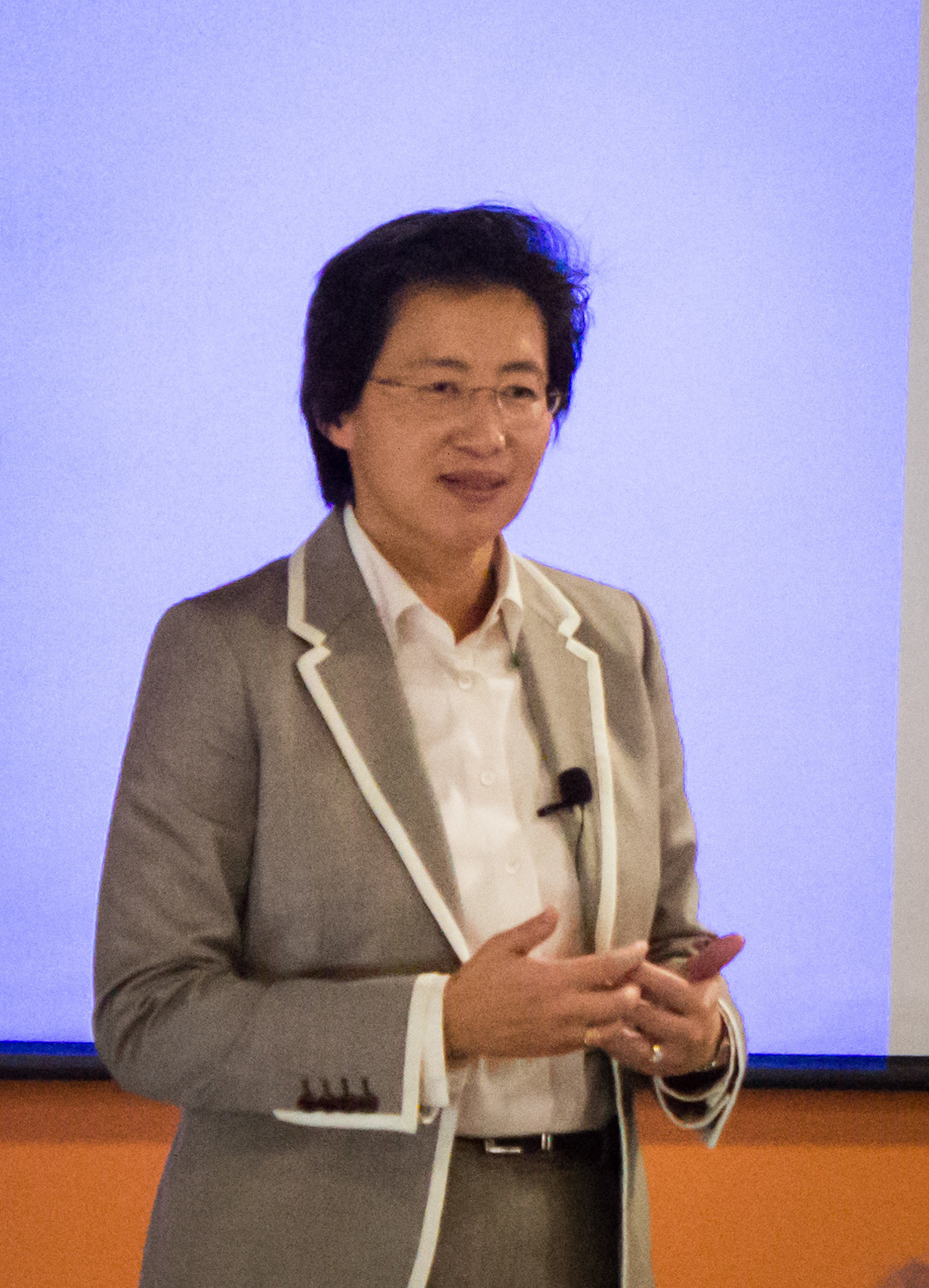 Dr. Lisa Su